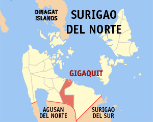 Map of the Surigao del Norte showing the location of Gigaquit